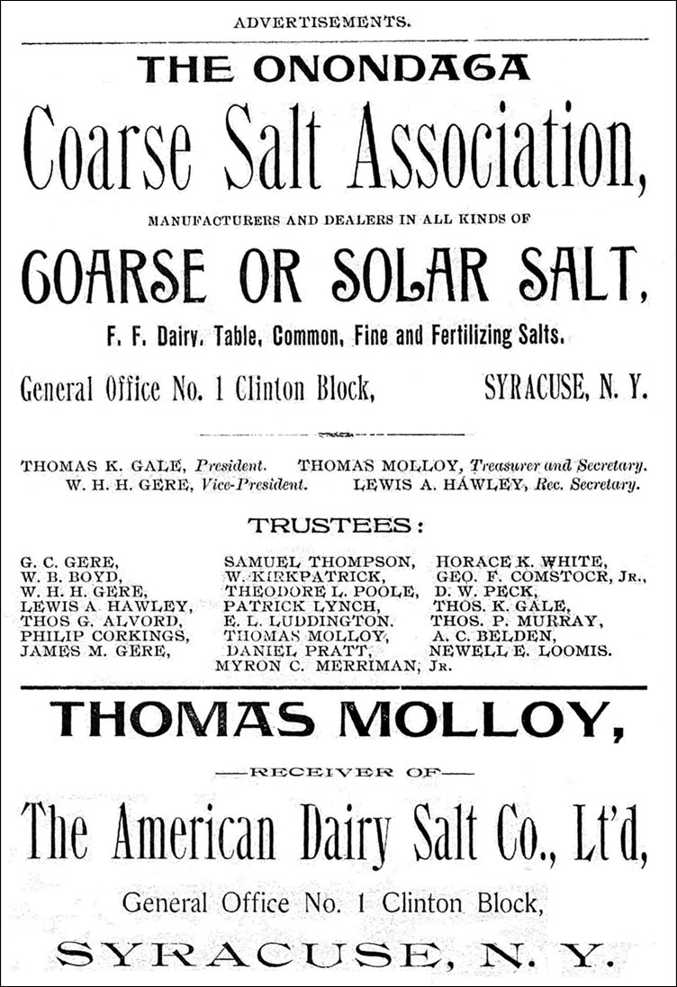 Thomas Malloy - The American Dairy Salt Co., Lt'd